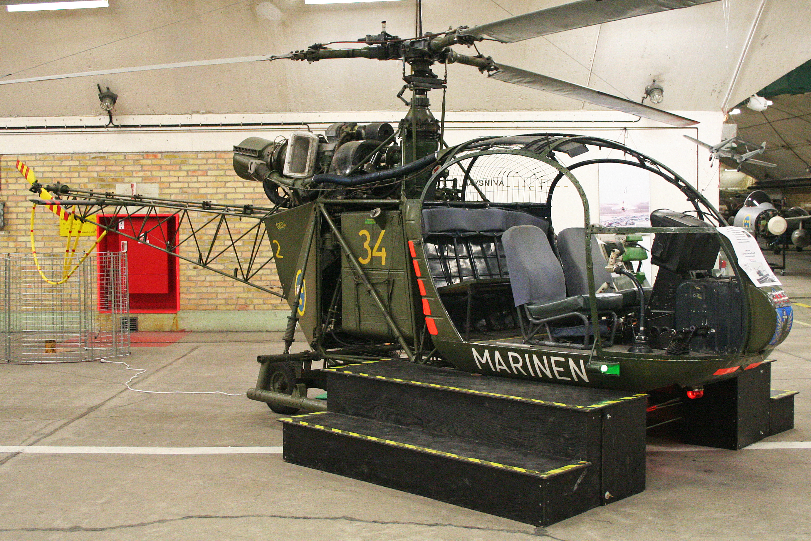 In use as a hands-on exhibit. msn 1175, l/n C63. The Aeroseum, Gothenburg Save. 02-6-2012